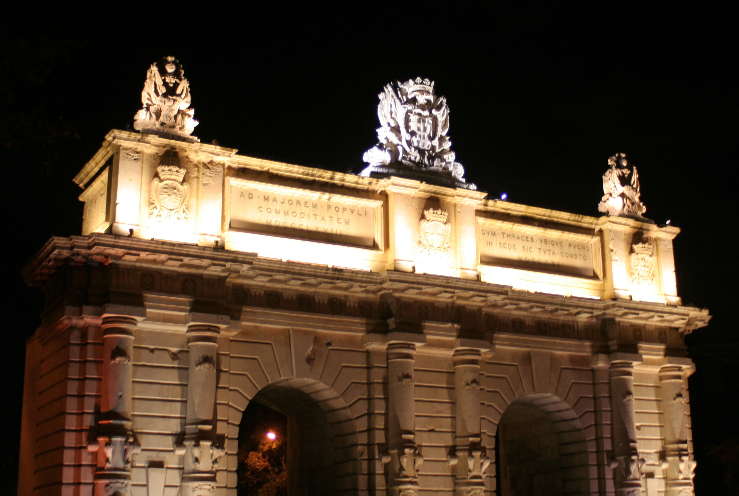 The Porte des Bombes is an ornamental gate in the Floriana Lines, which formed the outer defensive walls of Valletta, Malta. It is situated between Pietà Creek and Marsa to the west and southeast, and the suburb of Floriana to the east. It was constructed in Baroque style between 1697 and 1720, during the reign of Fra Ramon Perellos y Roccaful, 64th Grandmaster of the Knights of Malta. Perellos' Coat of Arms appears above the gate. During the 19th century, the British government dramatically altered the original design of the gate by adding a second archway to accommodate increasingly heavy traffic in the Grand Harbour area. A marble plaque was affixed to the newer arch, with the following inscription: "Ad majorem popoli accomodatum". The short-lived Malta Railway once ran through a tunnel located near Porte des Bombes.